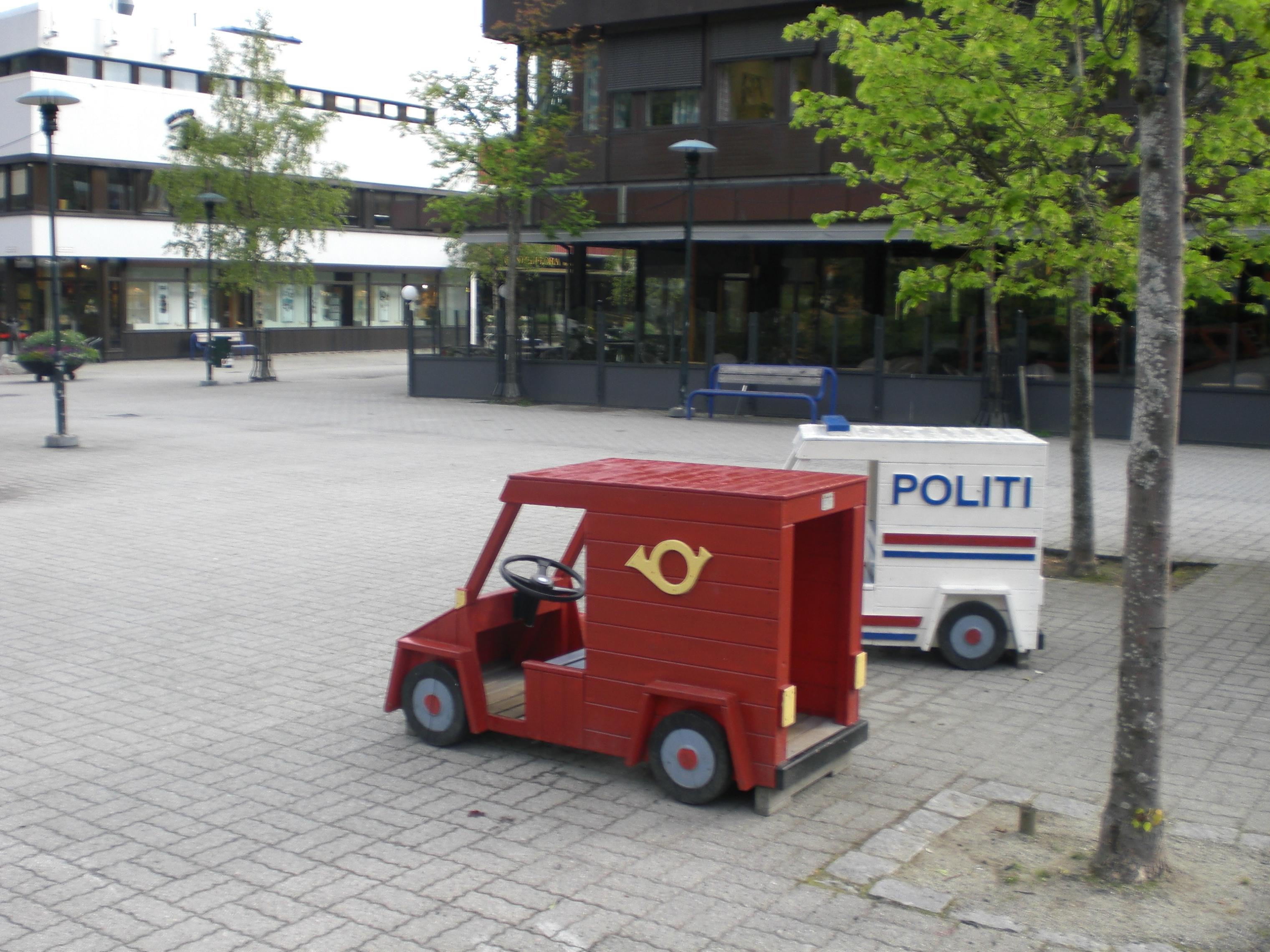 Town market of Mosjøen, Norway.